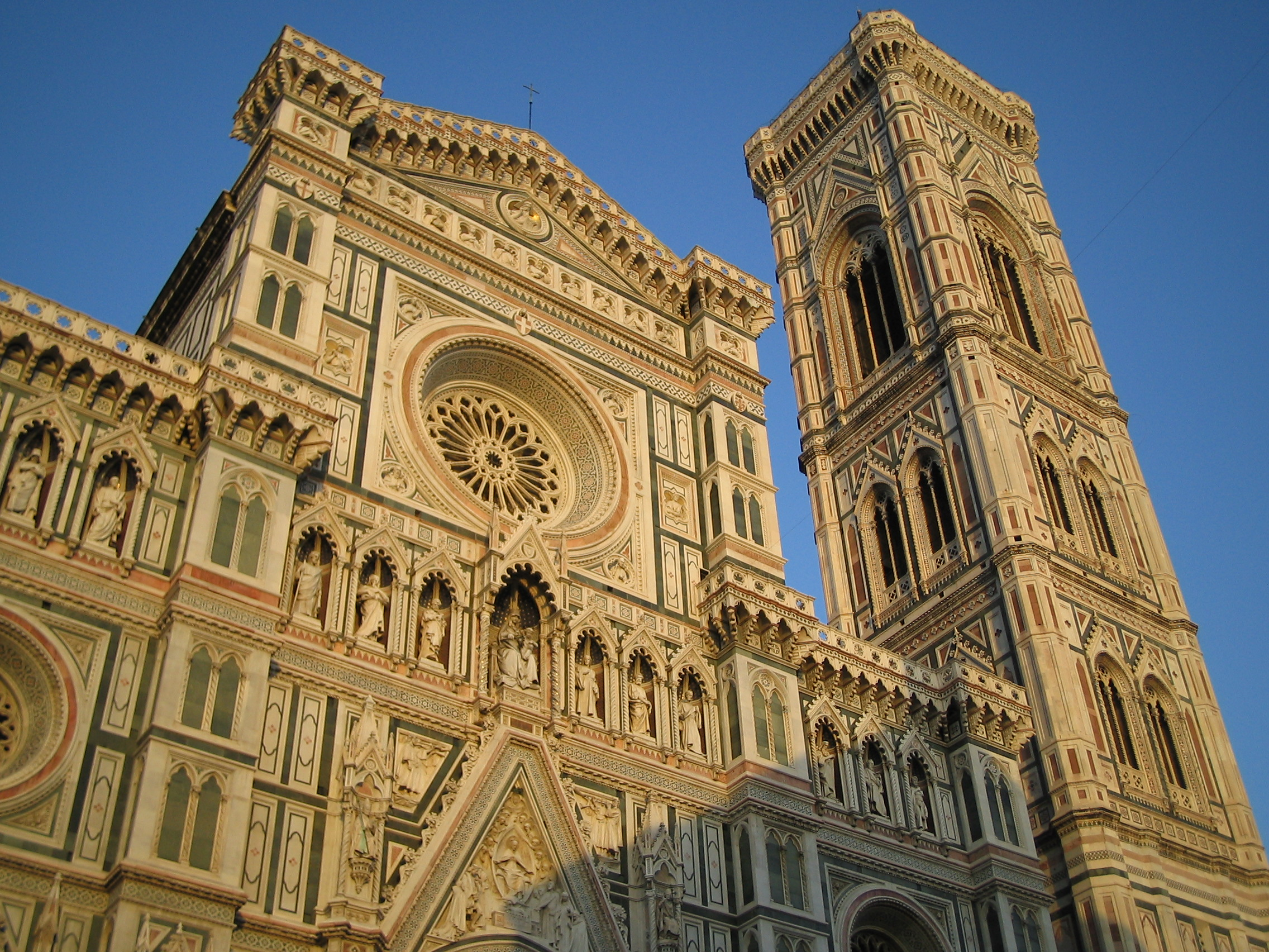 Front view of the Florence Cathedral